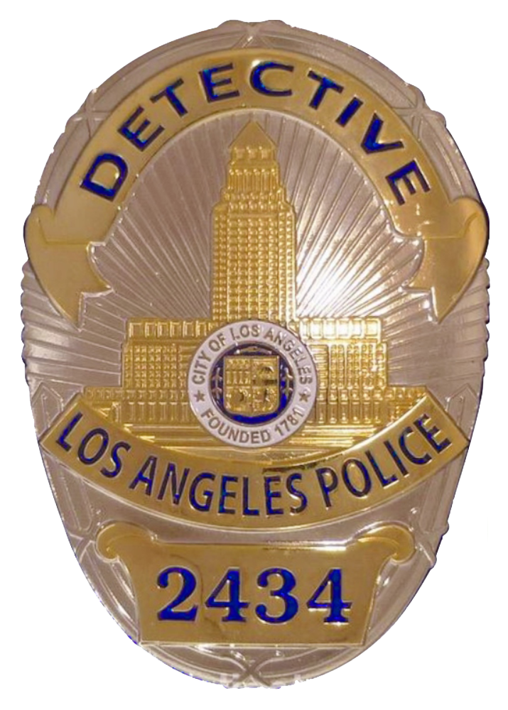 Badge of a Los Angeles Police Department detective (2434)